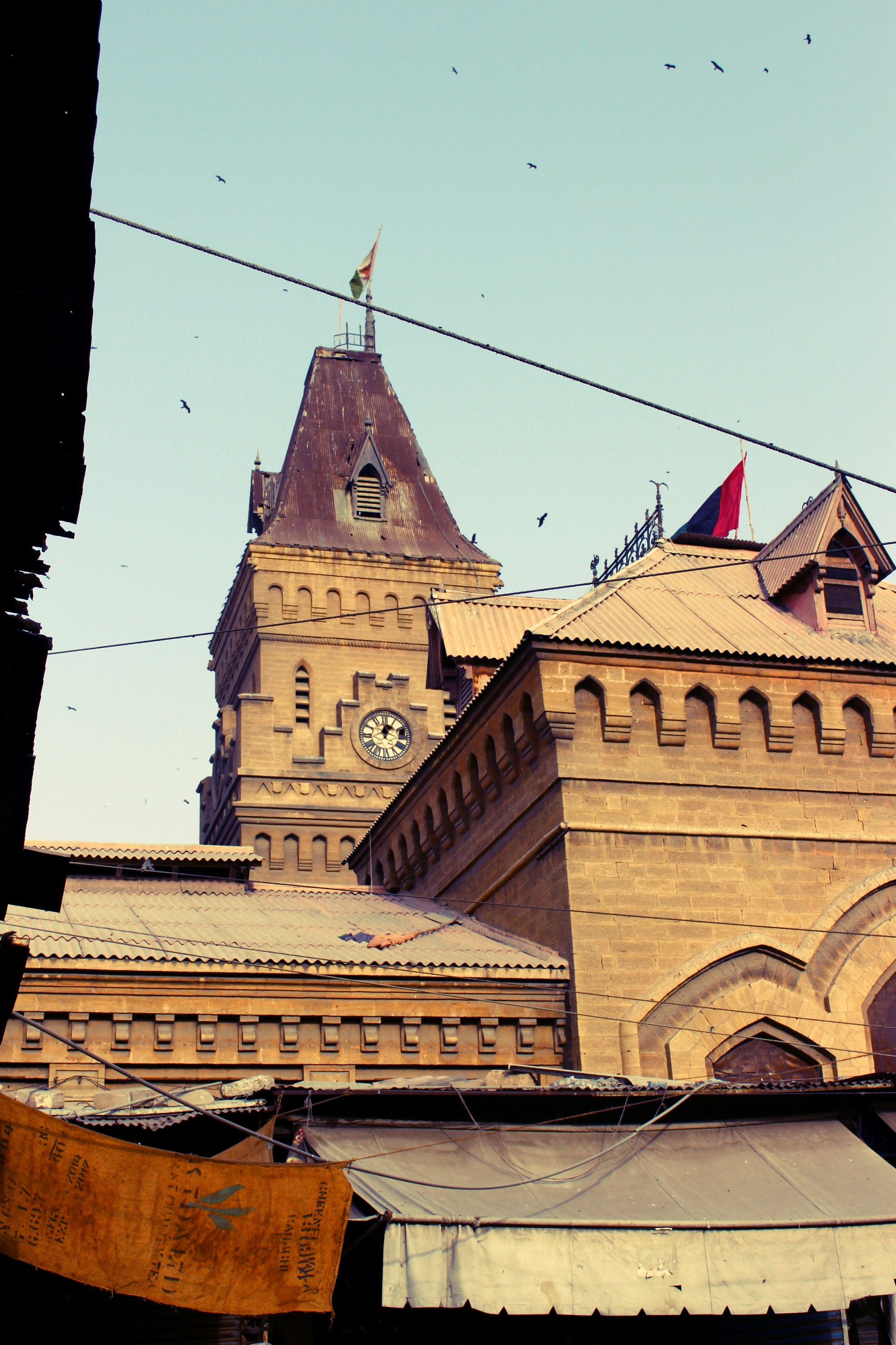 Empress Market This is a photo of a monument in Pakistan identified as the SD-P-175